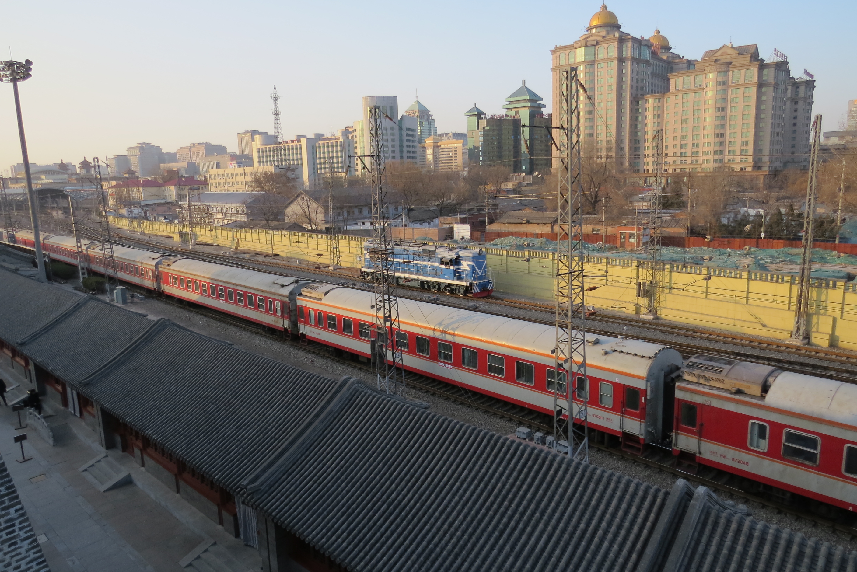 K102 from Wenzhou to Beijing.